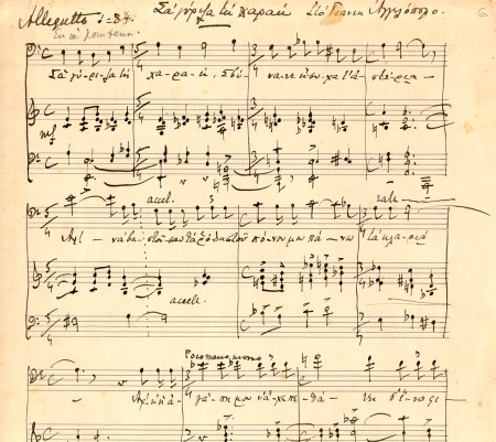 Manuscript Three gypsy songs